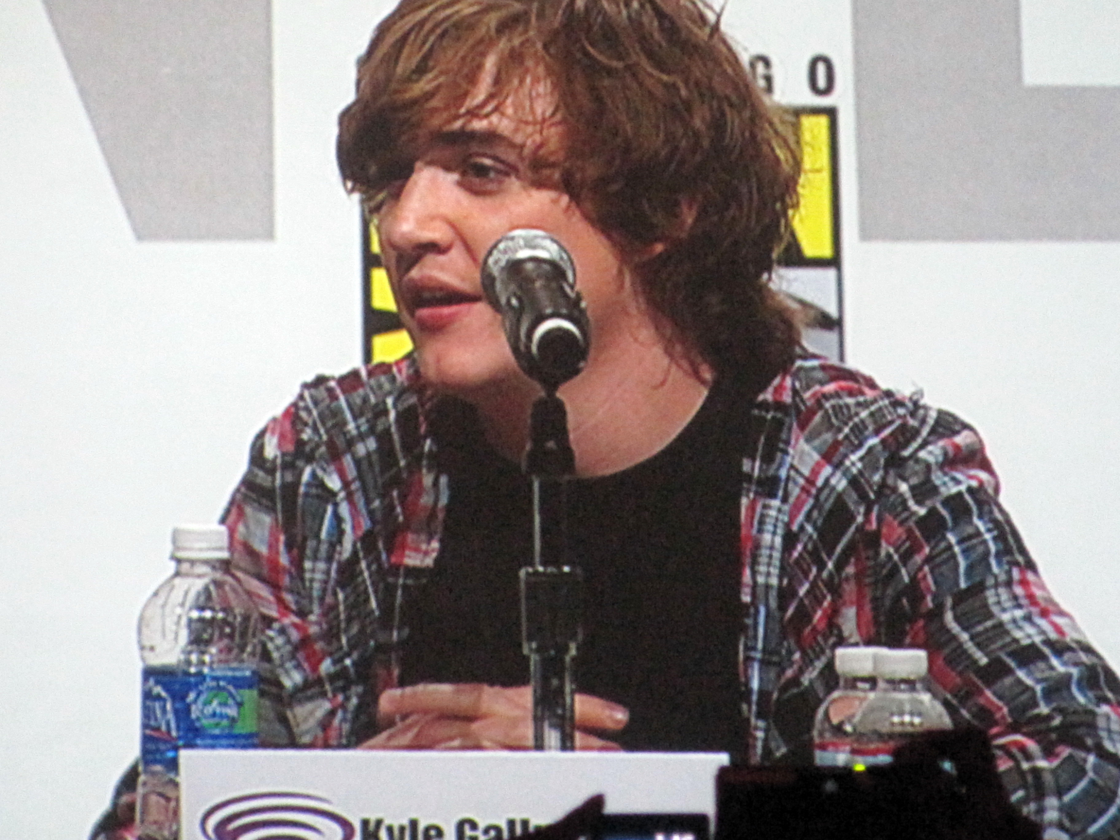 Actor Kyle Gallner participating in the panel for A Nightmare on Elm Street at WonderCon 2010.